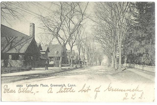 Postcard: Lafayette Place, a street in Greenwich, Connecticut, 1906 postcard. Caption: "50969 Lafayette Place, Greenwich, Conn." Store Web page: "Undivided Back - Postally Used - PM 1906" The store Web page does not show the reverse side with the postmark. Message is on front, as with all undivided-back postcards (a type used from 1901 to 1907). Message: "Dear Ethel, A little bit of Greenwich. J.L.S."